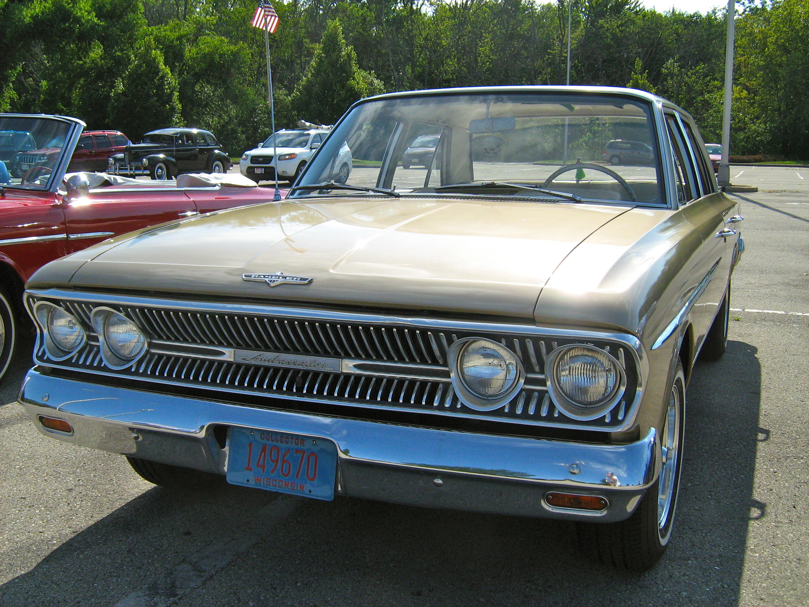 1963 Rambler Ambassador 880 (this was the lowest trim model in the line) four-door sedan - front view. Built by American Motors Corporation (AMC) and finished in Corsican Gold (paint code: P41) with Frost White top. Photographed in Kenosha, Wisconsin, USA.